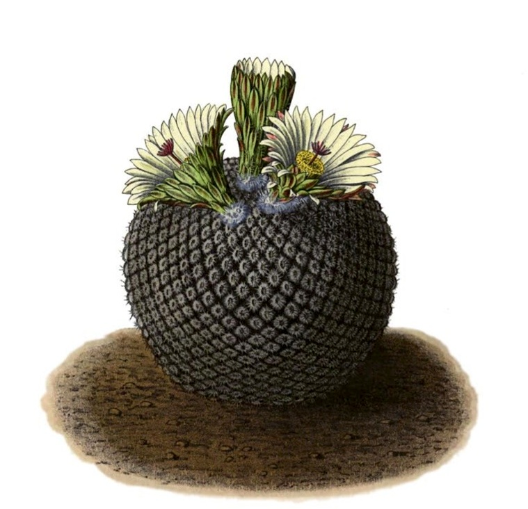 Eriosyce odieri ssp. fulva